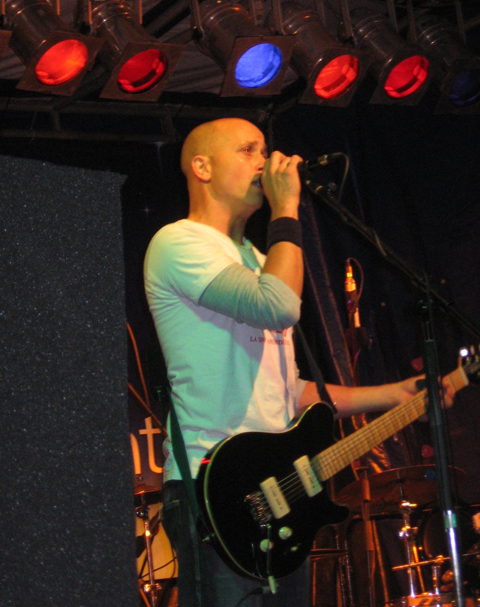 Australian musician Johnny Diesel at Rocks Night Market, Sydney.